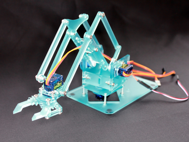 Phenoptix MeArm Robot Arm Download